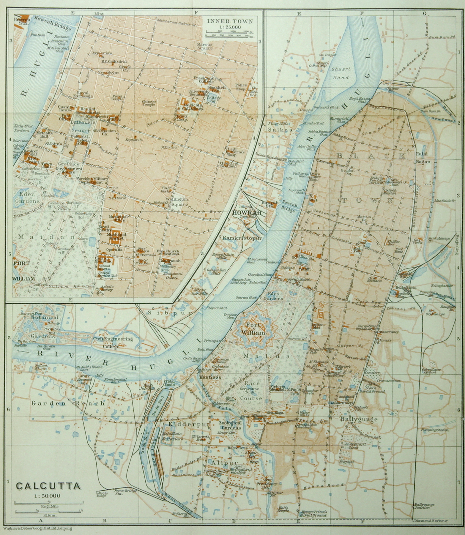 Map of the city of Calcutta, ca 1914 (1:50,000), with a smaller, inserted map showing the Inner Town (1:25,000). Labelled in English.